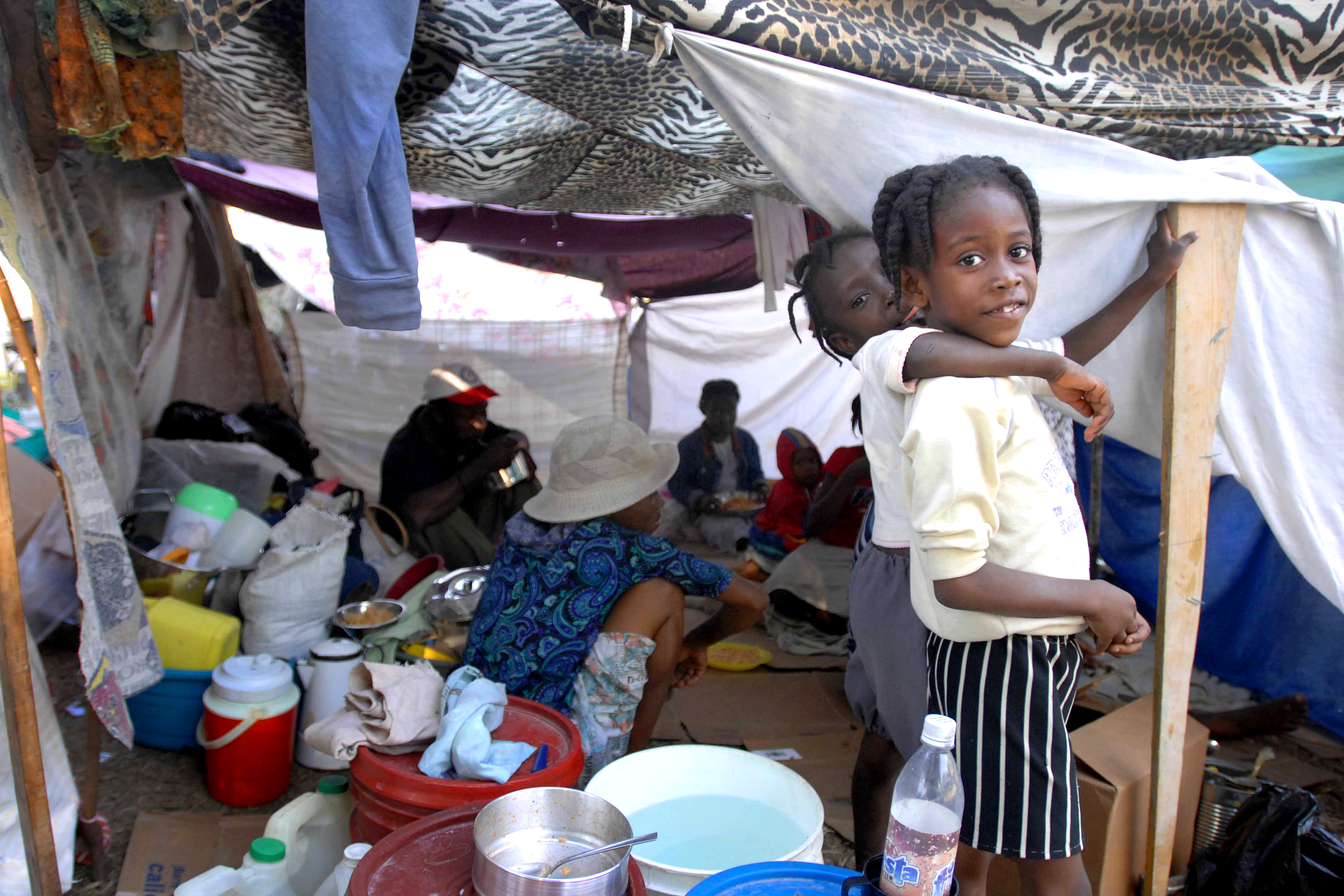 Two girls smile for the camera at a survivor camp in Port-au-Prince, Haiti, Jan. 21, 2010. Military and civilian medical teams scoured the massive tent city today looking for injured who cannot make it to the forward operating base set up by the 82nd Airborne Division's 1st Squadron, 73rd Cavalry Regiment. A humanitarian relief organization has set up a critical care clinic on the base.